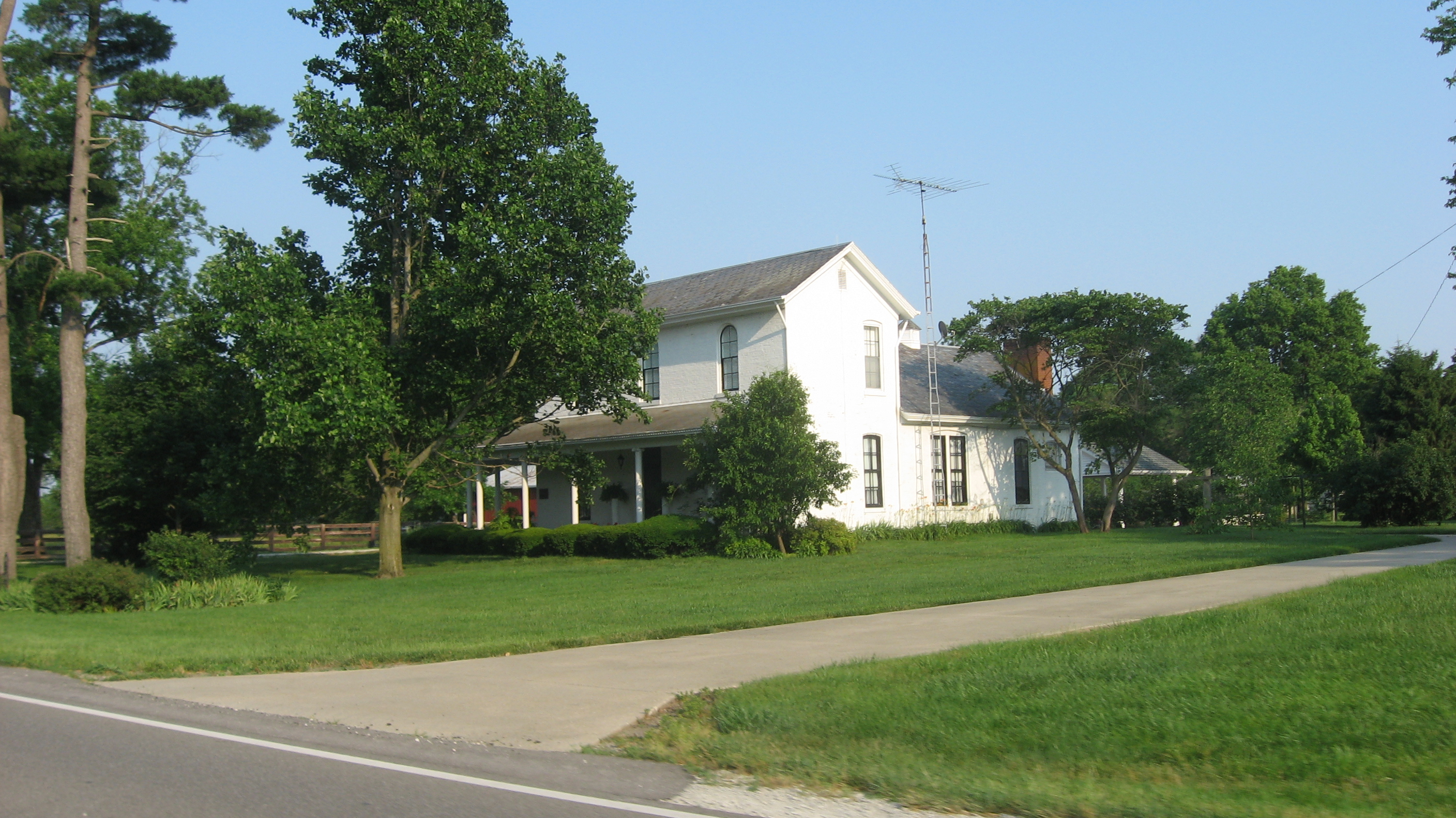 Farmhouse at the Beatty-Trimpe Farm, located at 4475 E. State Road 258 west of Seymour in Hamilton Township, Jackson County, Indiana, United States. Centered around the 1874 farmhouse, the farm is listed on the National Register of Historic Places.